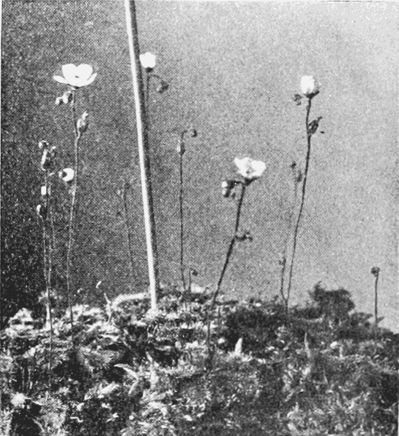 A carnivorous plant, Drosera brevifolia